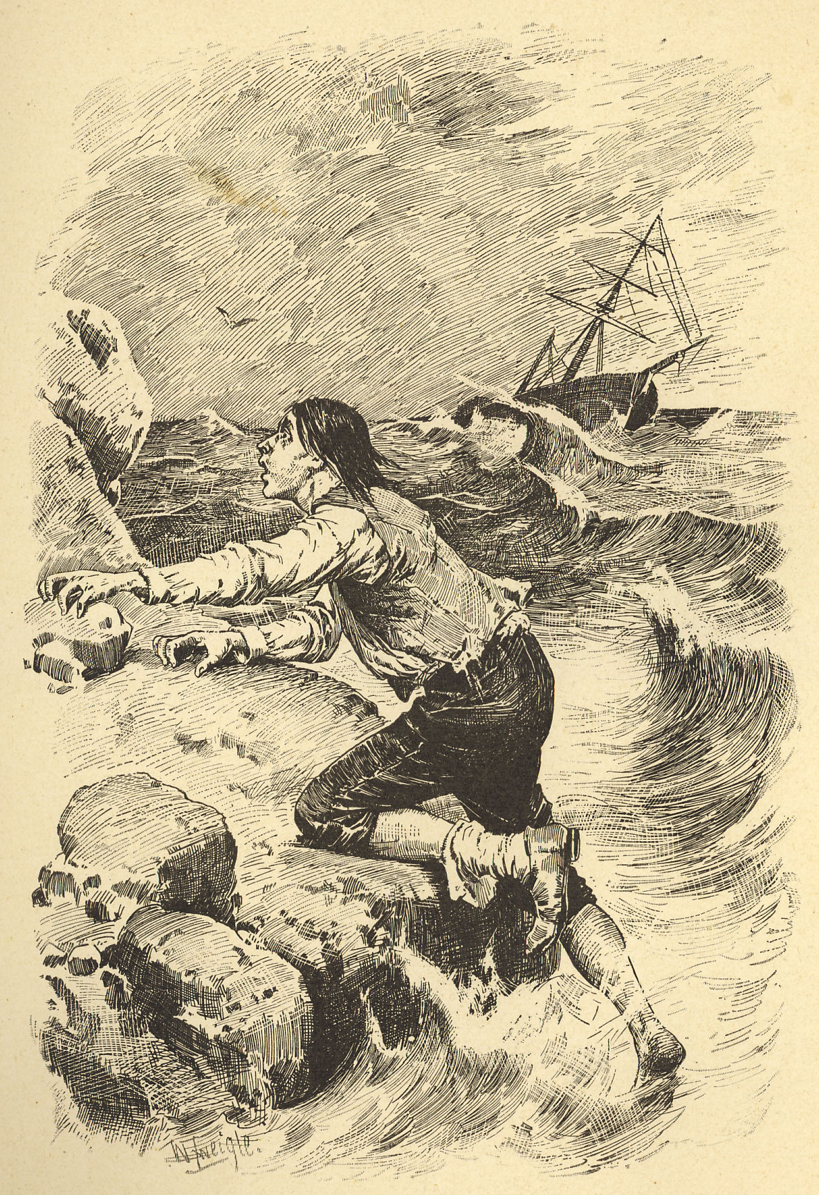 Robinson Crusoe by the German artists Offterdinger & Zweigle; around 1880. Uploaded by --Immanuel Giel 11:37, 4 May 2006 (UTC)